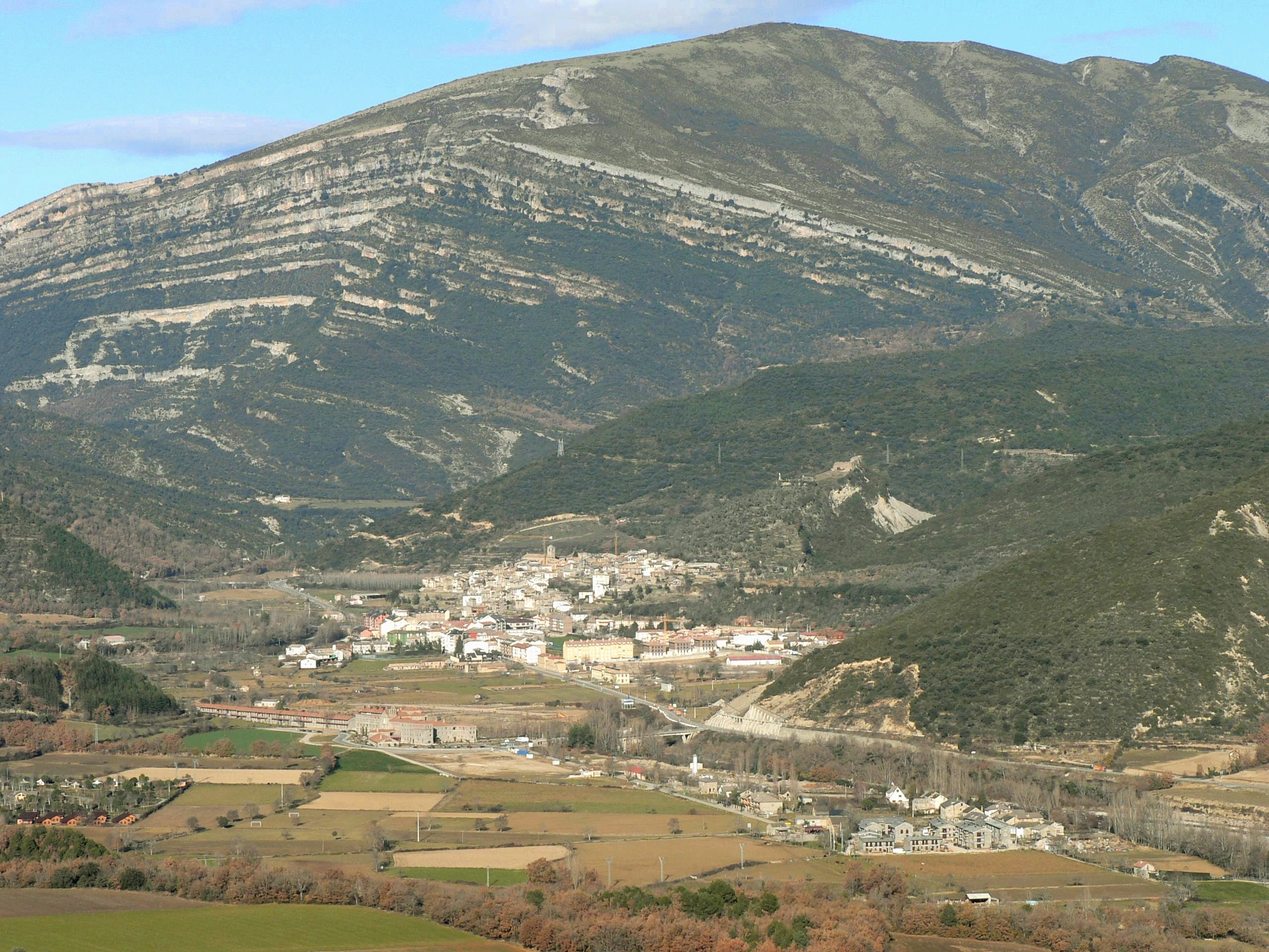 Valley of river Ara as seen from Guaso Aragonés: Val de l'Ara dende Guaso